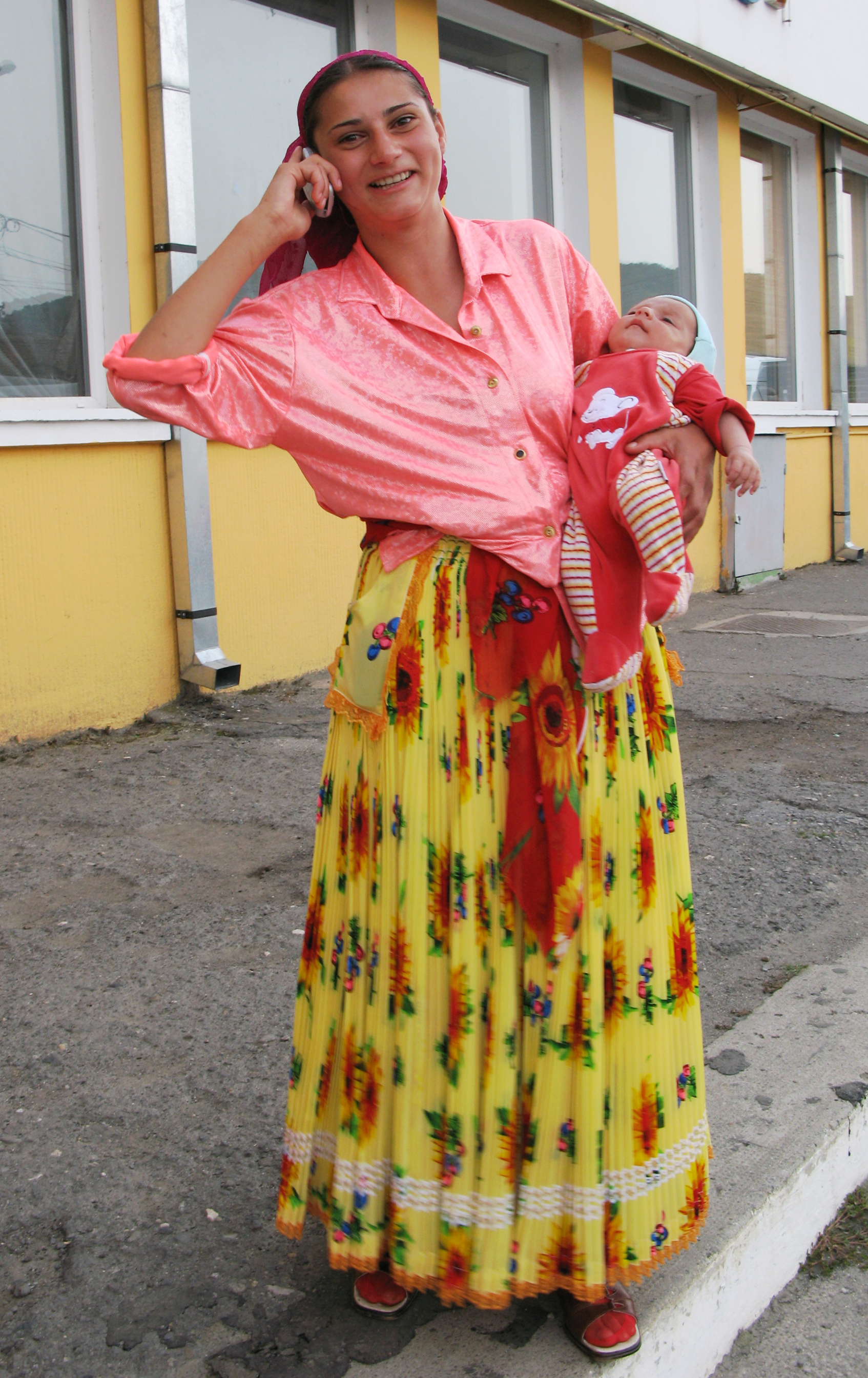 Romani mother (in typical romani dress) with baby in Shighisoara, Romania.